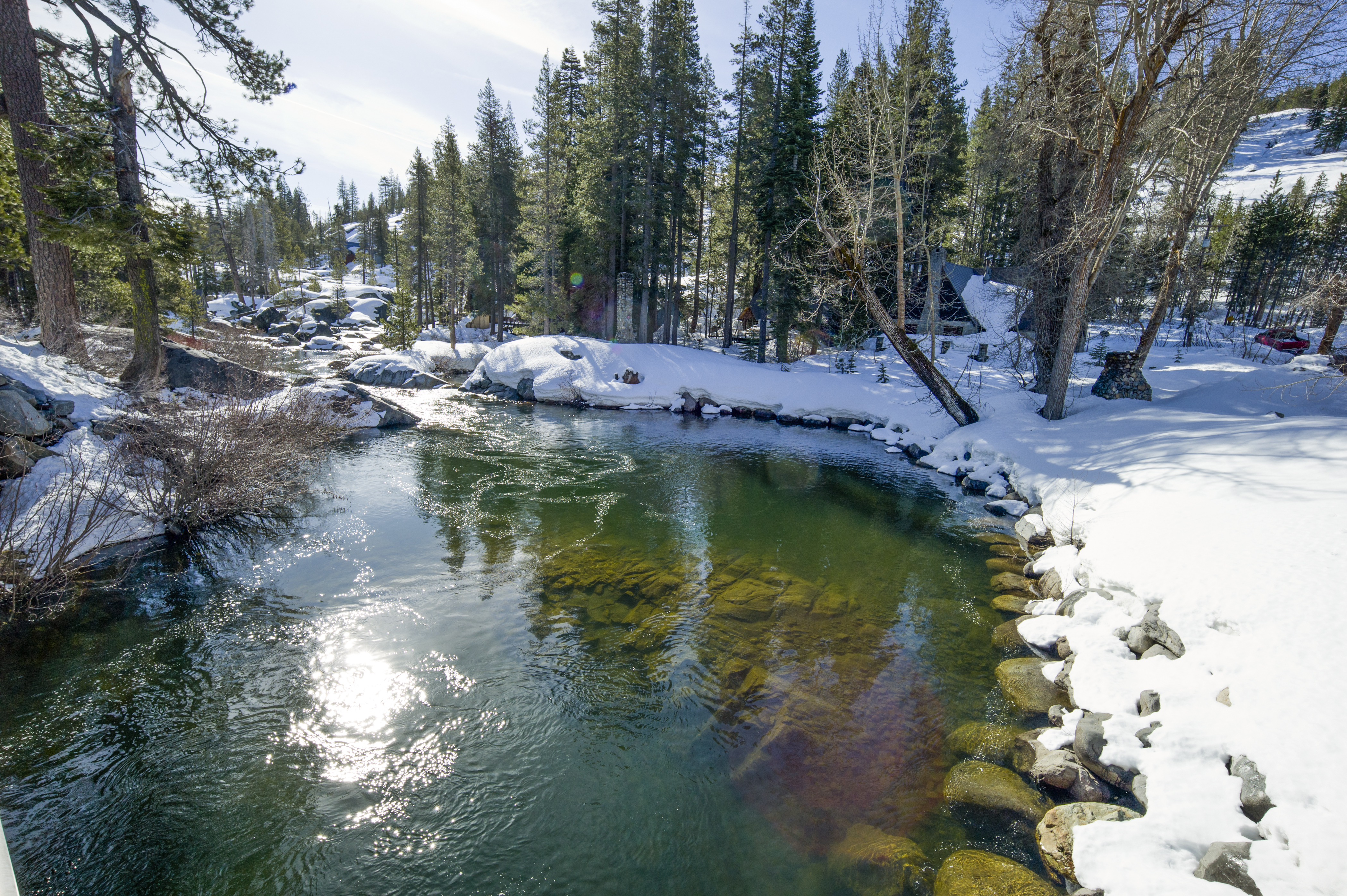 Snow in the Sierra Nevada Mountains.